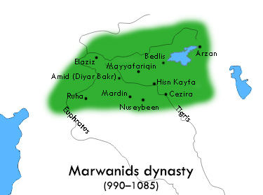 A map shows the dynasty of Marwanids (Dostukis) Kurds in Mesopotamia.